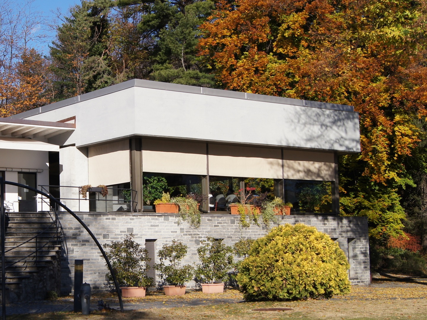 Albergo Monte Verità, restaurant by Livio Vacchini